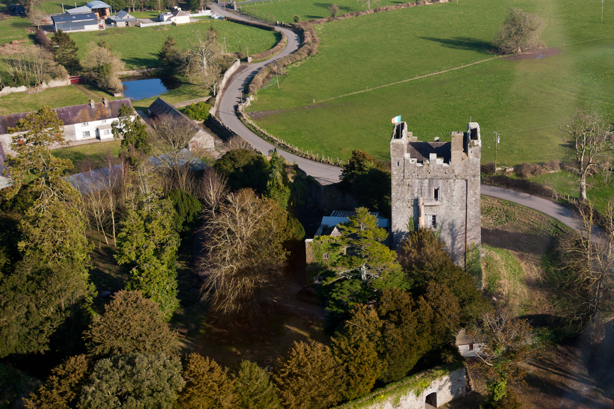 Photo by Paul Hopkins